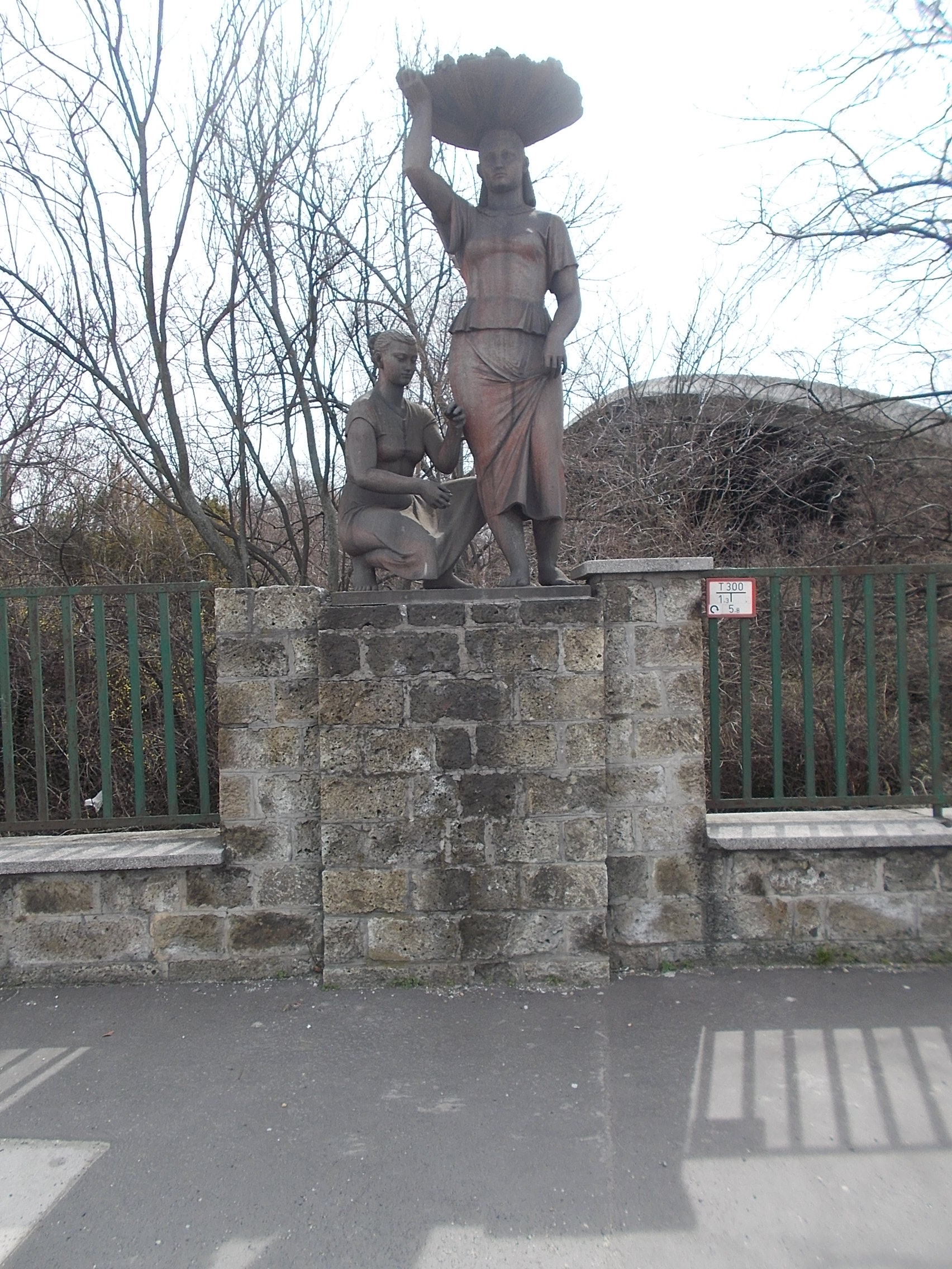 Harvesters (fence ornament) by László Garami (1954 aluminum statue, damaged, Socialist realist style) - Jászberényi street, Óhegy neighborhood, 10th District of Budapest.